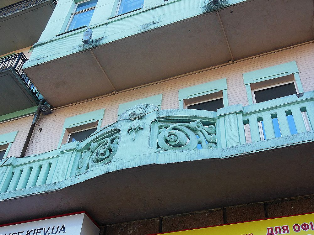 Moroz house in Kiev.